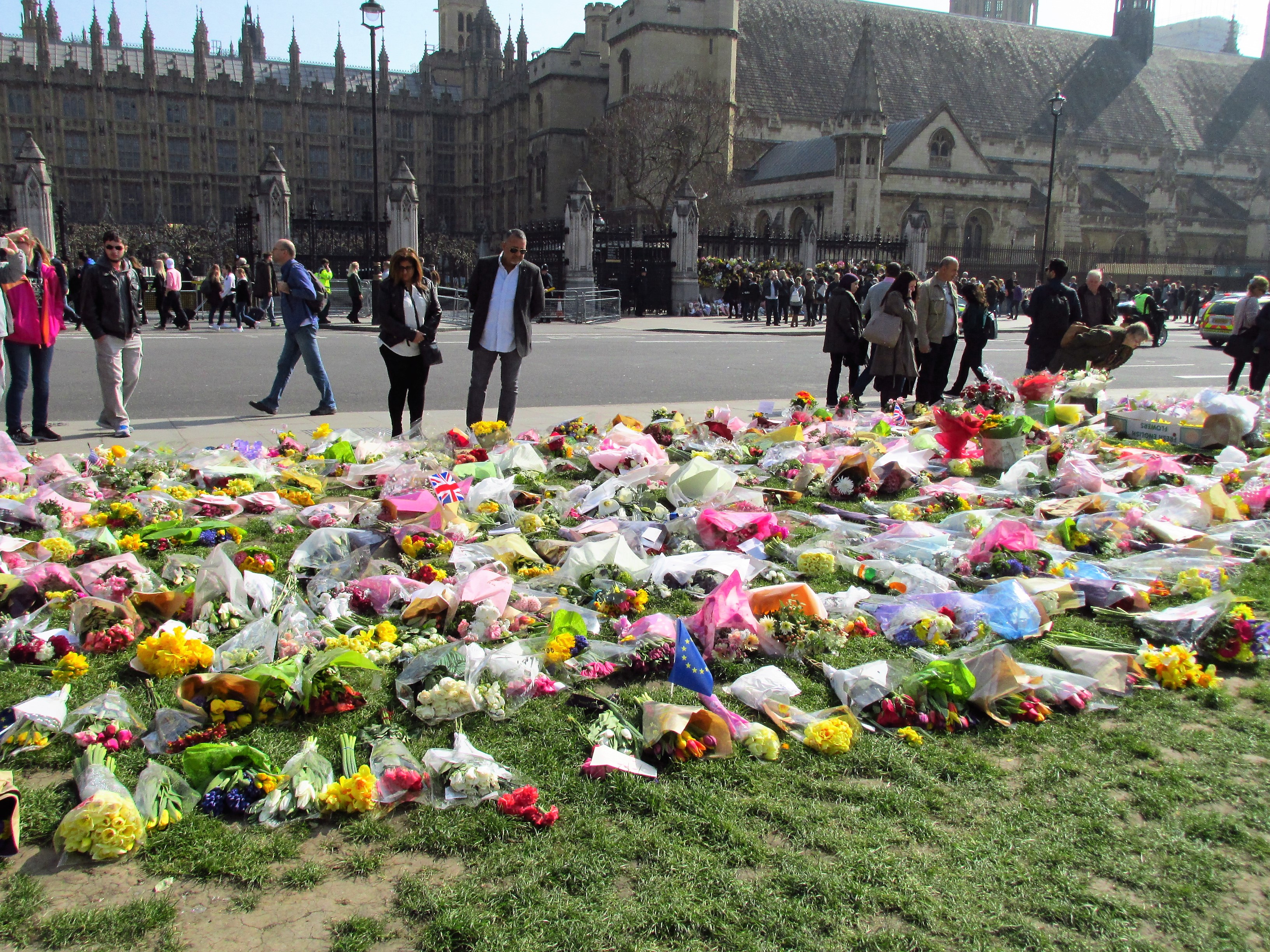 London March 27 2017 Flowers for the Westminster Attack in Parliament Square (7)